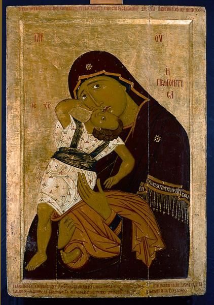 The Virgin of Pelagonitissa, formerly in the monastery of Zrze. Painted by the priest-monk Makarios Zographos, 1421–1422. Art Gallery, Skoplje, Macedonia[1]